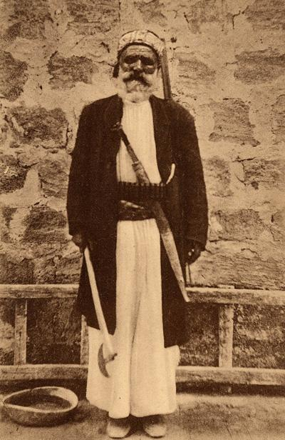 A post card from around 1900 of an Alawite man posing with his hatchet, sword, and rifle. Alawites, populate mainly the coastal mountains near Lattakia in North Western Syria.